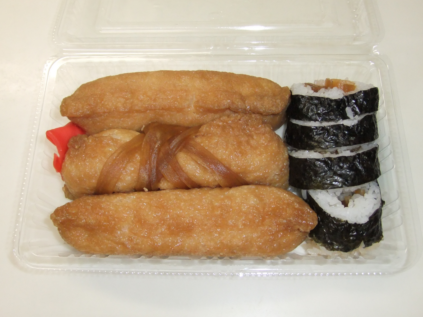 Inari-zushi and Norimaki